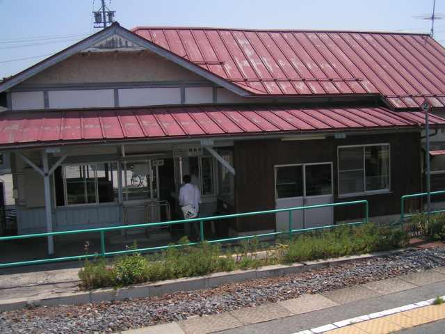 Azumi-Oiwake Station in Azumino, Nagano, Japan